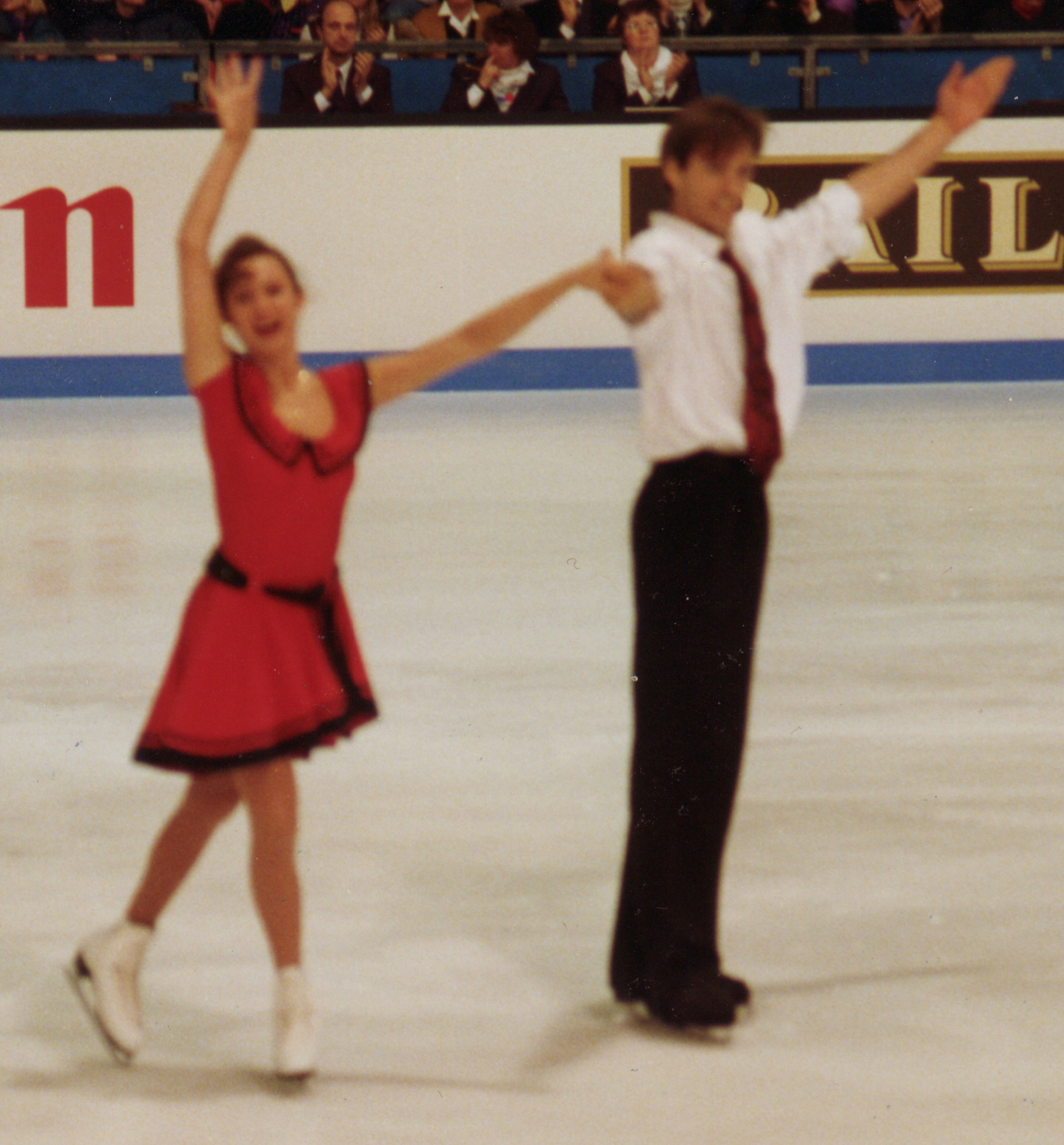 Oksana Grishuk and Evgeny Platov at the European Championships 1994 in Copenhagen